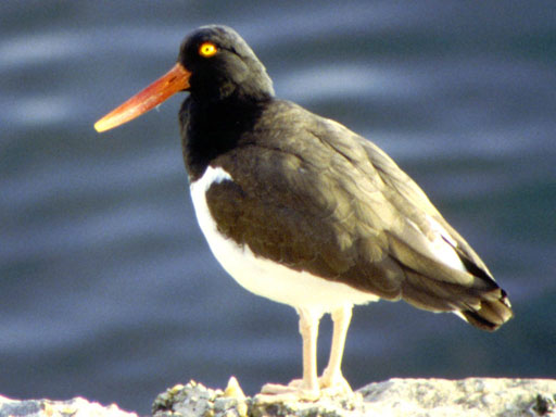 American Oystercatcher, Haematopus palliatus. Location: Chesapeake Bay Bridge Tunnel, Virginia, United States.